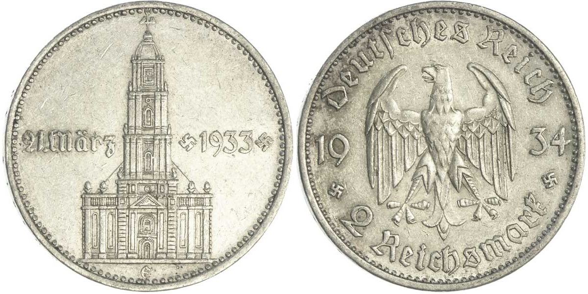 Reichsmark aigle / commémoration du serment du 21 mars 1933 en l’église de la garnison de Potsdam, argent frappé en 1934